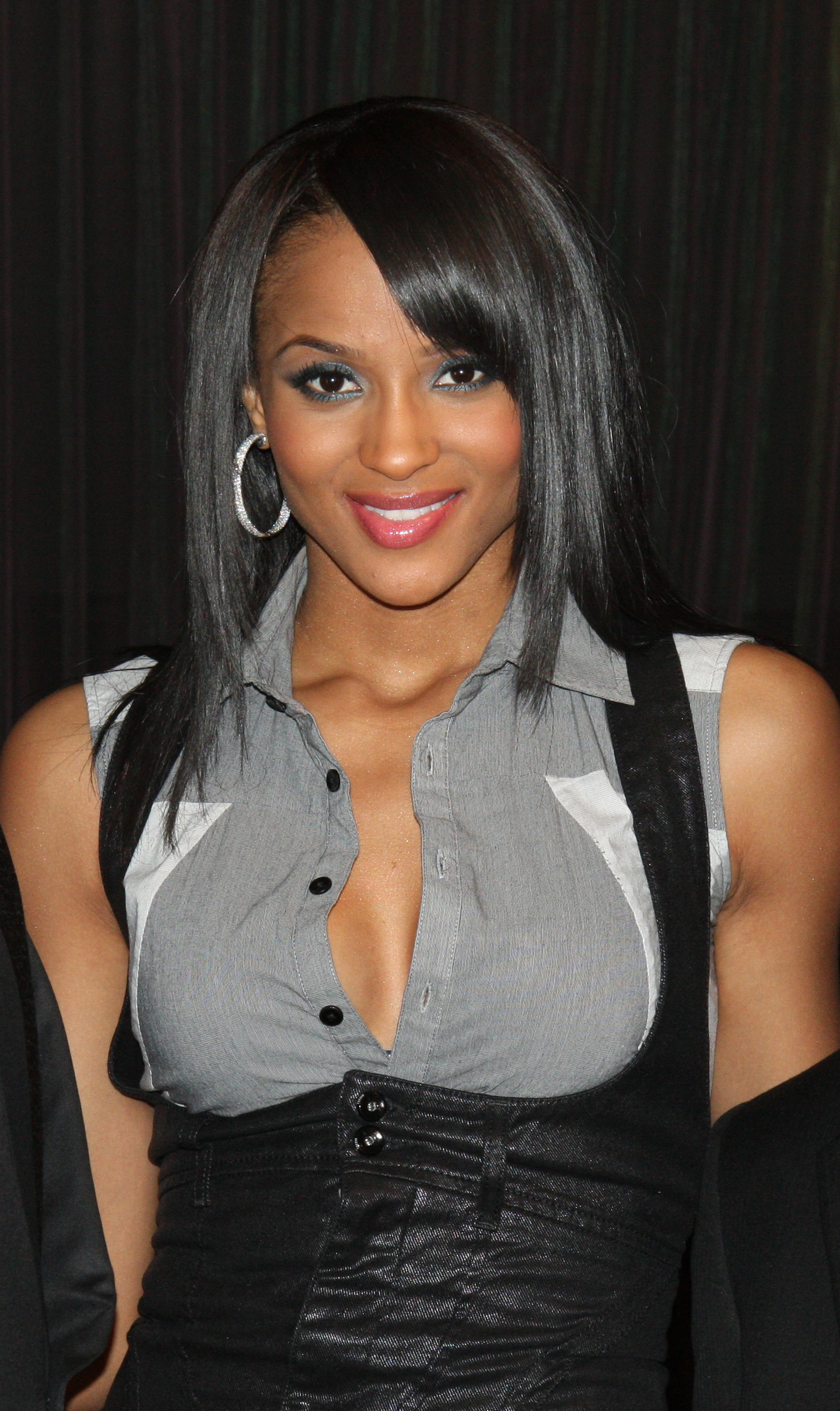 Ciara (center) attending the 5th Annual Hip-Hop Summit Action Network's Action Awards